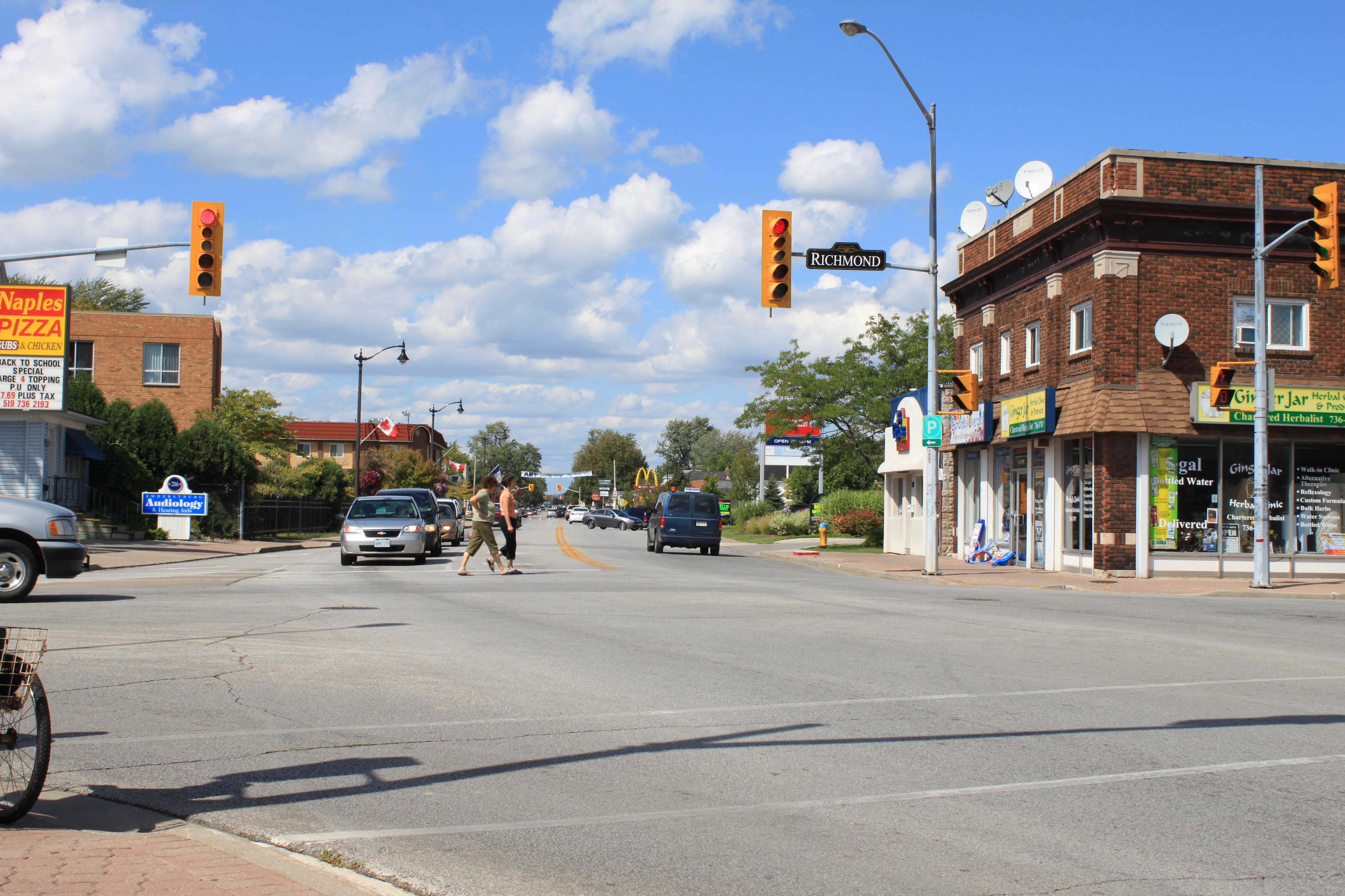 Amherstburg Ontario, Sandwich Street at Richmond Street